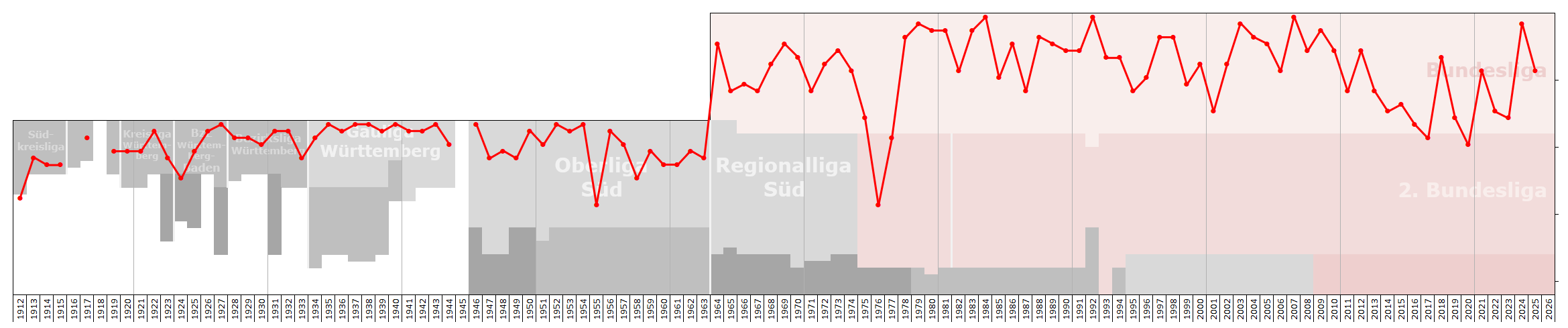 Chart of end-season table positions of VfB Stuttgart in the football league system of Germany. Data source: RSSSF, wikipedia, f-archiv.de, fussball.de